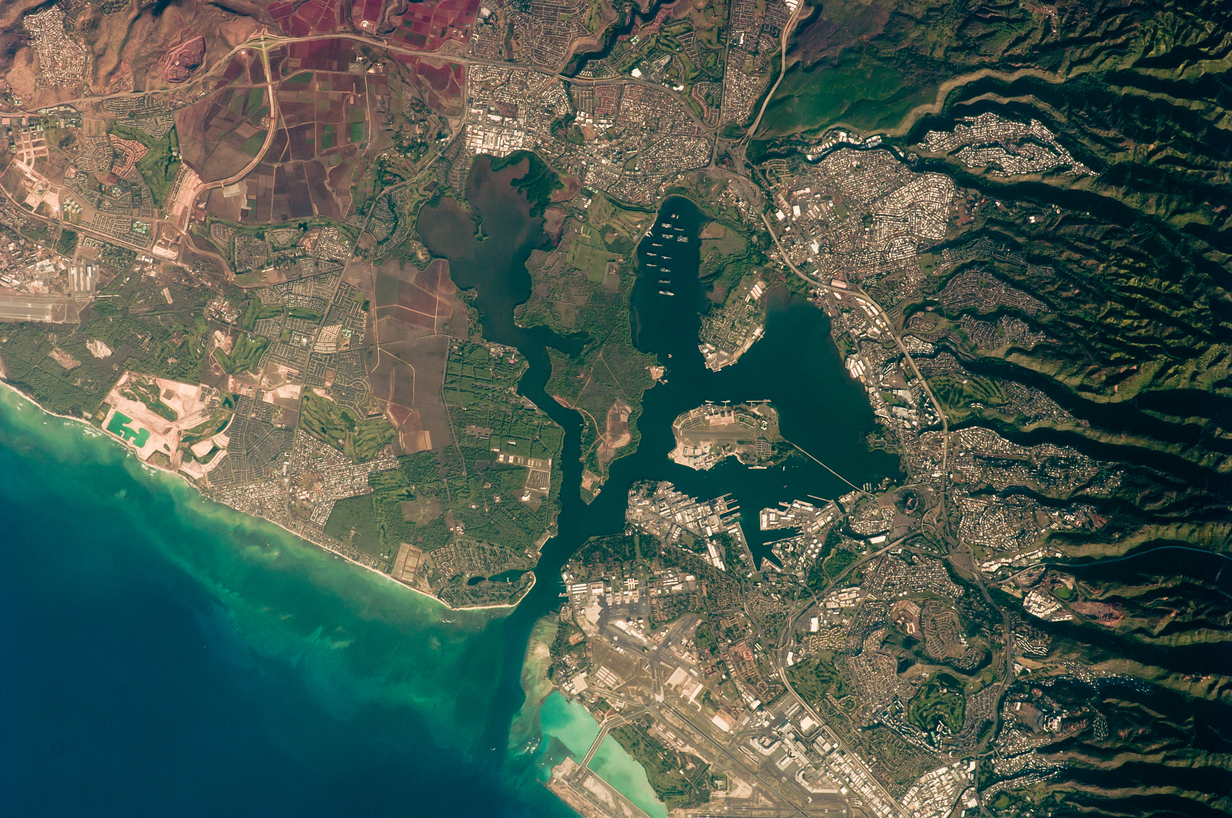 This detailed astronaut photograph illustrates the southern coastline of the Hawaiian island Oahu, including Pearl Harbor. On December 7, 1941—68 years ago—a surprise attack by the Japanese Navy on Pearl Harbor and other targets on the island of Oahu precipitated the entry of the United States into World War II. Today, Pearl Harbor is still in use as a major United States Navy installation, and along with Honolulu, it is one of the most heavily developed parts of the island. A comparison between this image and a 2003 astronaut photograph of Pearl Harbor suggests that little observable land use or land cover change has occurred in the area over the past six years. The most significant difference is the presence of more naval vessels in the Reserve Fleet anchorage in Middle Loch (image center). The urban areas of Waipahu, Pearl City, and Aliamanu border the harbor to the northwest, north, and east. The built-up areas, recognizable by linear streets and white rooftops, contrast sharply with the reddish volcanic soils and green vegetation on the surrounding hills. ISS Crew Earth Observations: ISS021-E-15710 Identification Mission ISS021 (Expedition 21) Roll E Frame 15710 Country or Geographic Name USA-HAWAII Features PEARL HARBOR, PEARL CITY, WAIPAHU Center Point Latitude 21.4° N Center Point Longitude -158.0° E Camera Camera Tilt 8° Camera Focal Length 400 mm Camera Nikon D2Xs Film 4288 x 2848 pixel CMOS sensor, RGBG imager color filter. Quality Percentage of Cloud Cover 0-10% Nadir What is Nadir? Date 2009-10-27 Time 17:57:32 Nadir Point Latitude 21.5° N Nadir Point Longitude -157.6° E Nadir to Photo Center Direction West Sun Azimuth 113° Spacecraft Altitude 185 nautical miles (343 km) Sun Elevation Angle 18° Orbit Number 2683